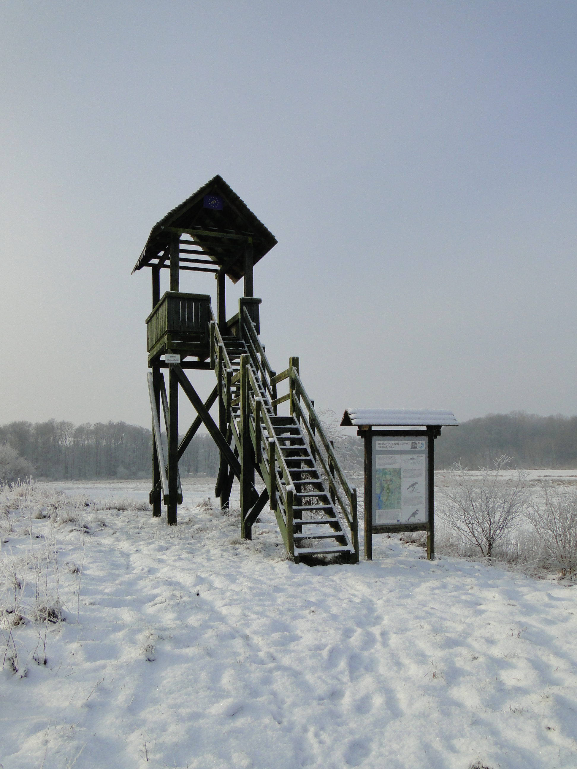 Nature reserve Moorrinne von Klein Salitz bis zum Neuenkirchener See in Neuenkirchen (Zarentin am Schaalsee), district Ludwigslust-Parchim, Mecklenburg-Vorpommern, Germany